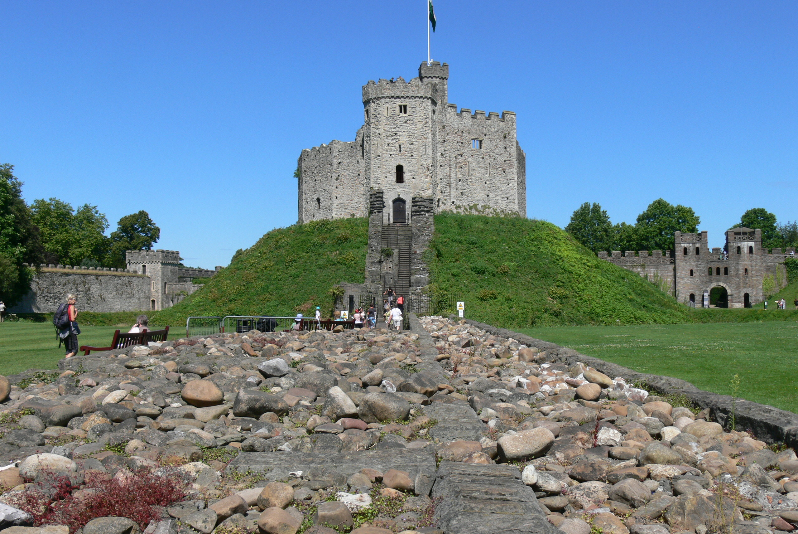 Cardiff Castle ( Wales ). Keep ( 12th century ) - remnants of the wall seperating the two parts of the castle.